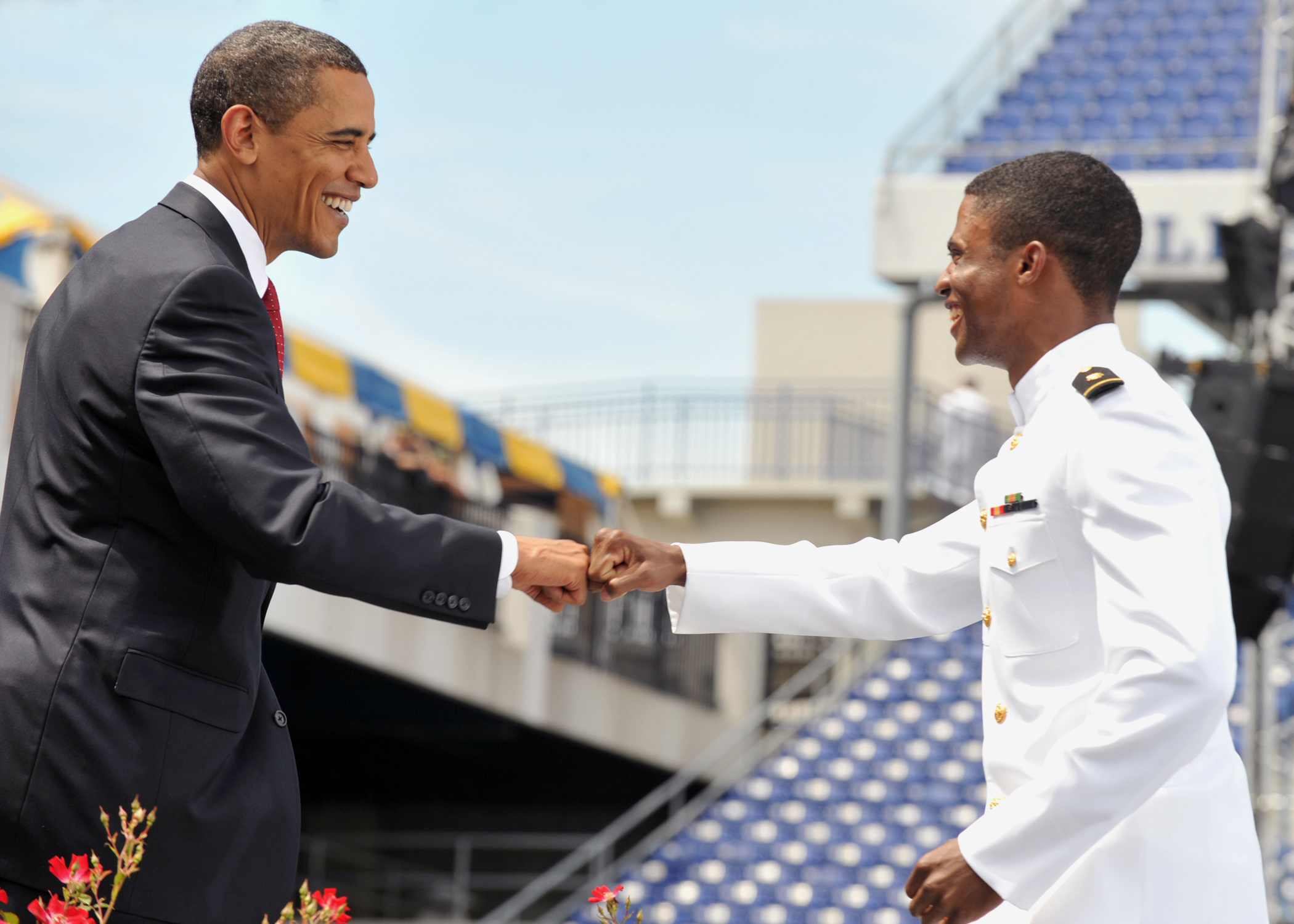 ANNAPOLIS, Md. (May 22, 2009) U.S. President Barack Obama congratulates a newly commissioned Navy ensign during the U.S. Naval Academy Class of 2009 graduation and commissioning ceremony. Obama delivered his first graduation speech as Commander-in-Chief to an audience of nearly 30,000 at Navy-Marine Corps Memorial Stadium in Annapolis, Md. (U.S. Navy photo by Shannon OíConnor/Released)